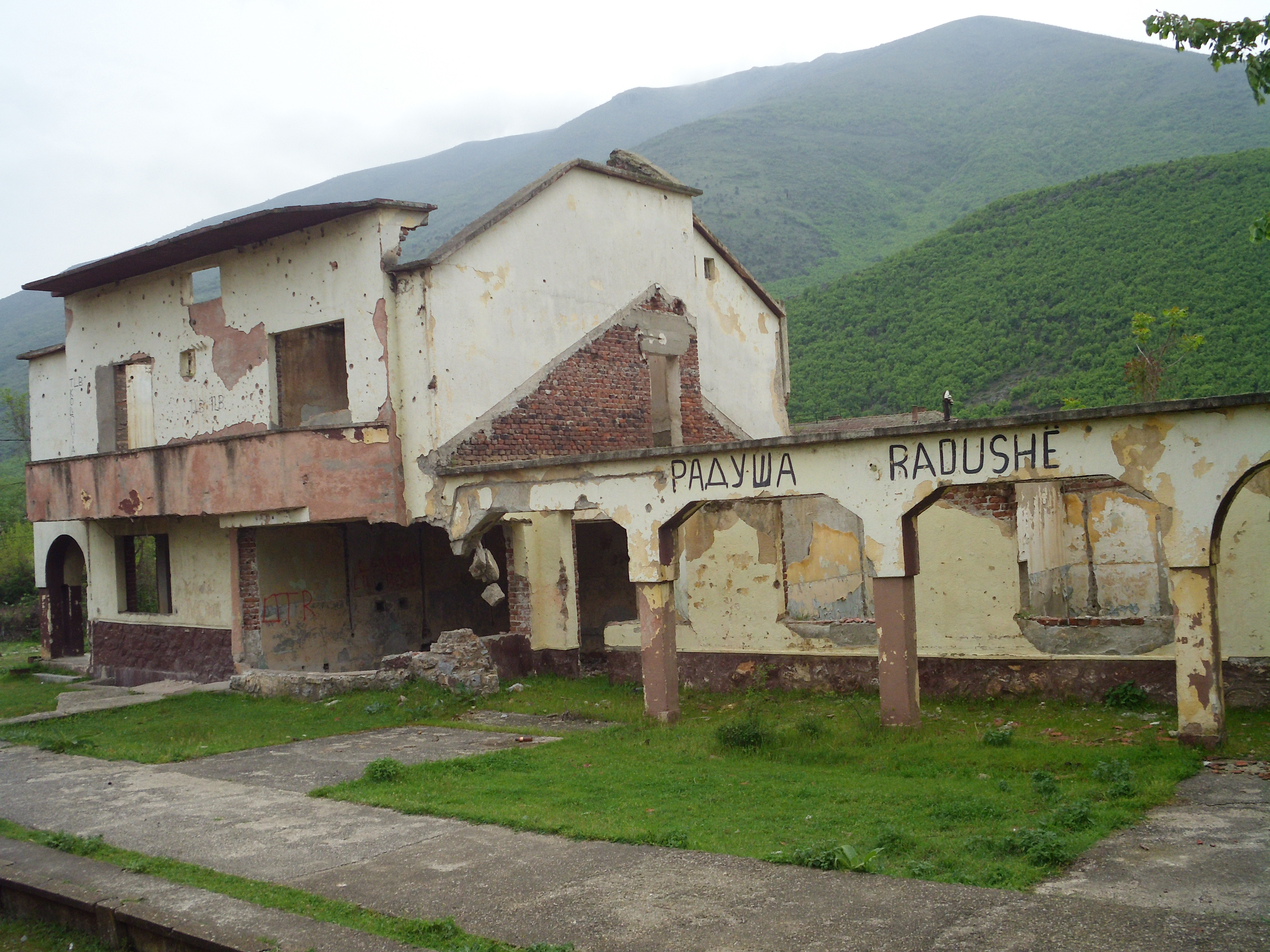 Ruins of a train station in Raduša, Macedonia. It was destroyed during the fighting between Macedonians and Albanians in 2001.